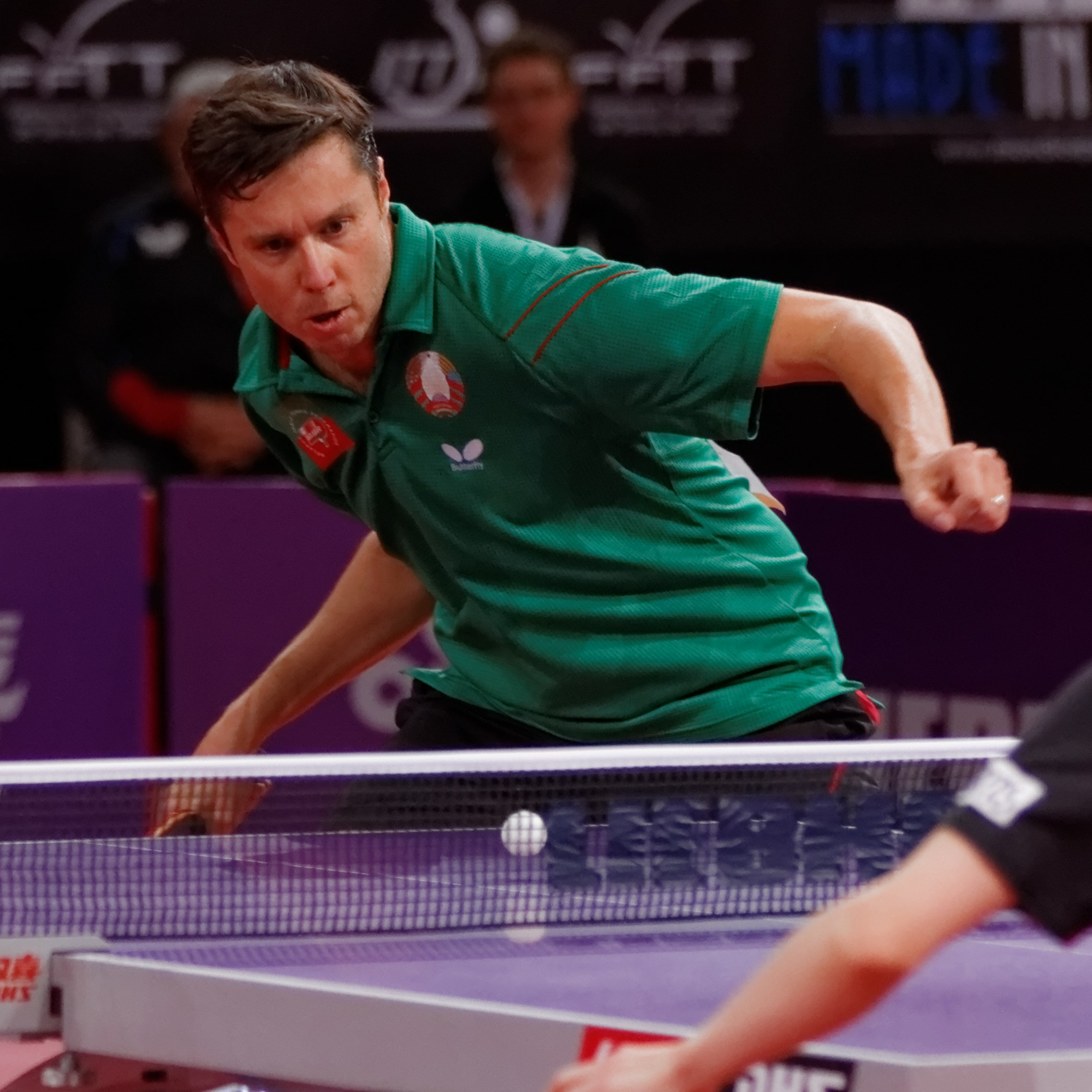 2013 World Table Tennis Championships, Paris. Men's Singles Round 4. Kenta Matsudaira vs Vladimir Samsonov.